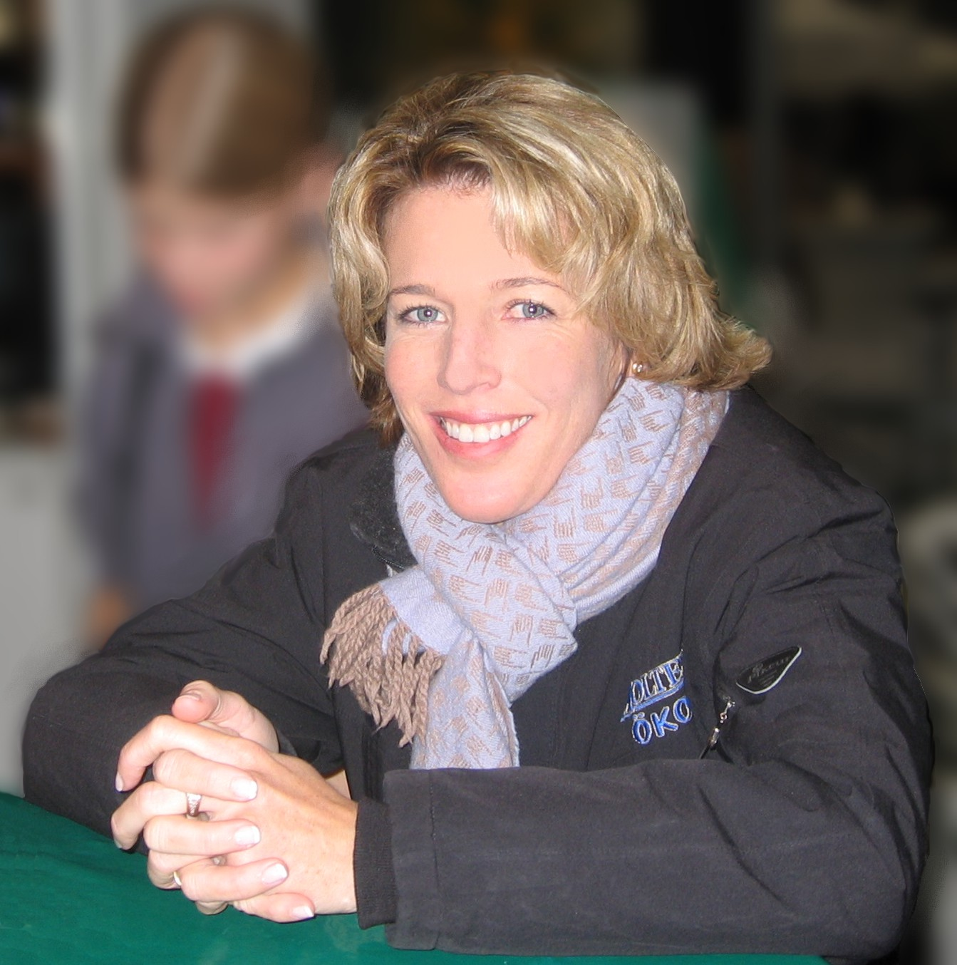 Meredith Michaels-Beerbaum at the German Classics in Hannover